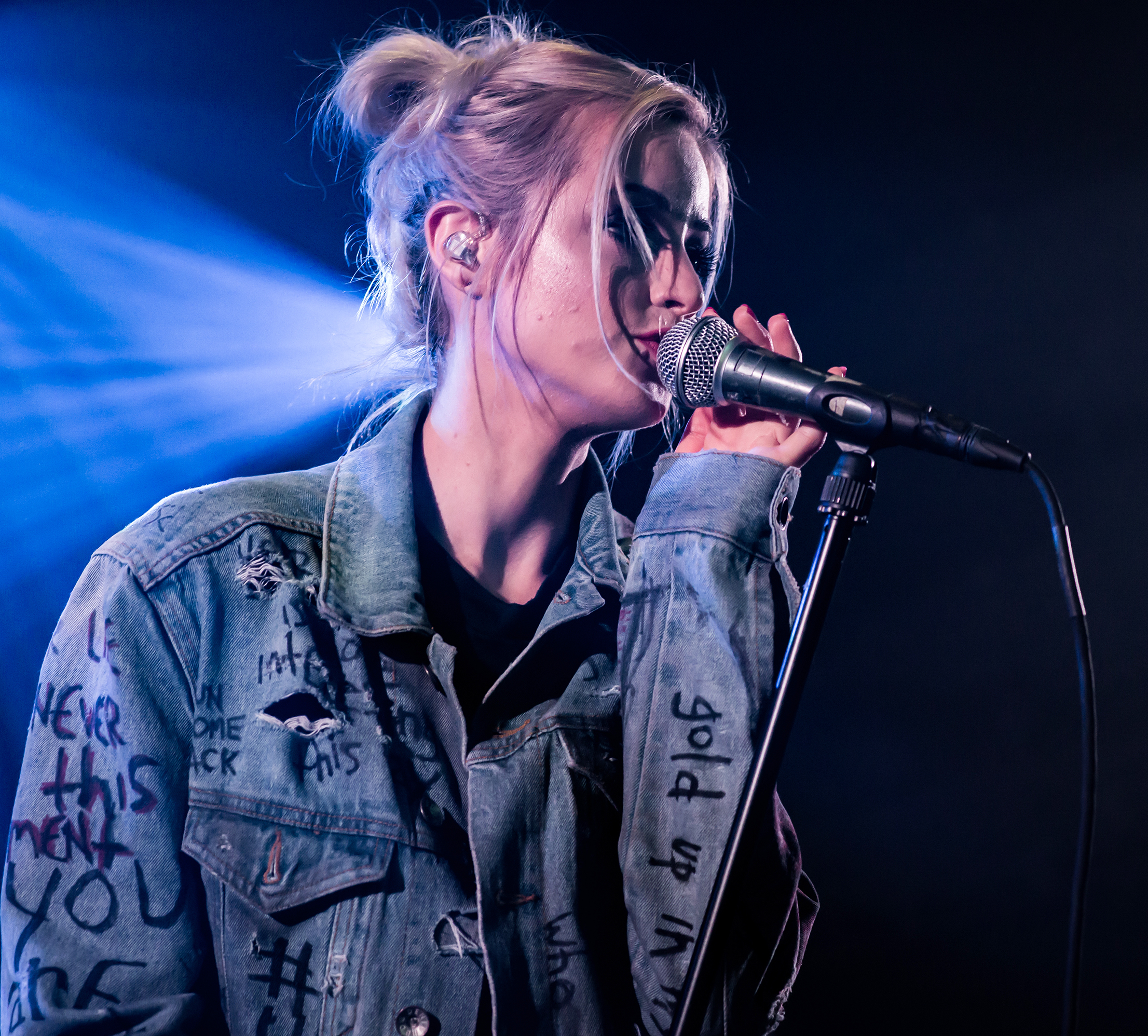 Carah Faye performing live at the Echo Comples, Los Angles